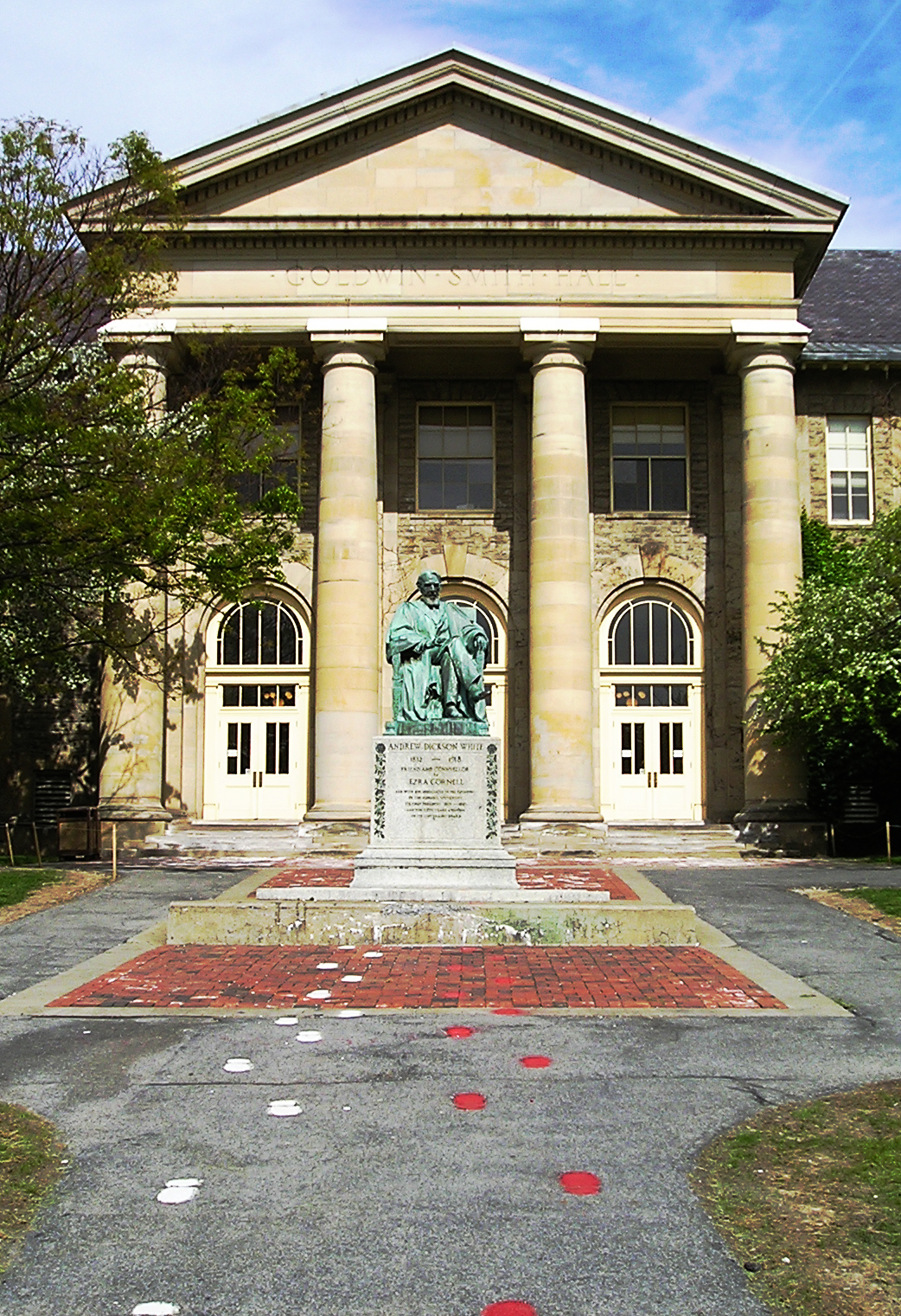 Photograph taken by User:Xtreambar and copyright released for free use. Andrew Dickson White's statue at Cornell University.